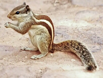 A squirrel eating grains